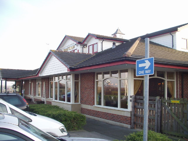 Brewer's Fayre, Royal Quay, North Shields.